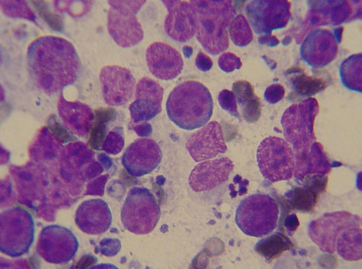 Cytology from a needle aspiration biopsy of a lymph node of a dog with lymphoma. The predominant cells are lymphoblasts. Slide was stained with a modified Wright's stain.